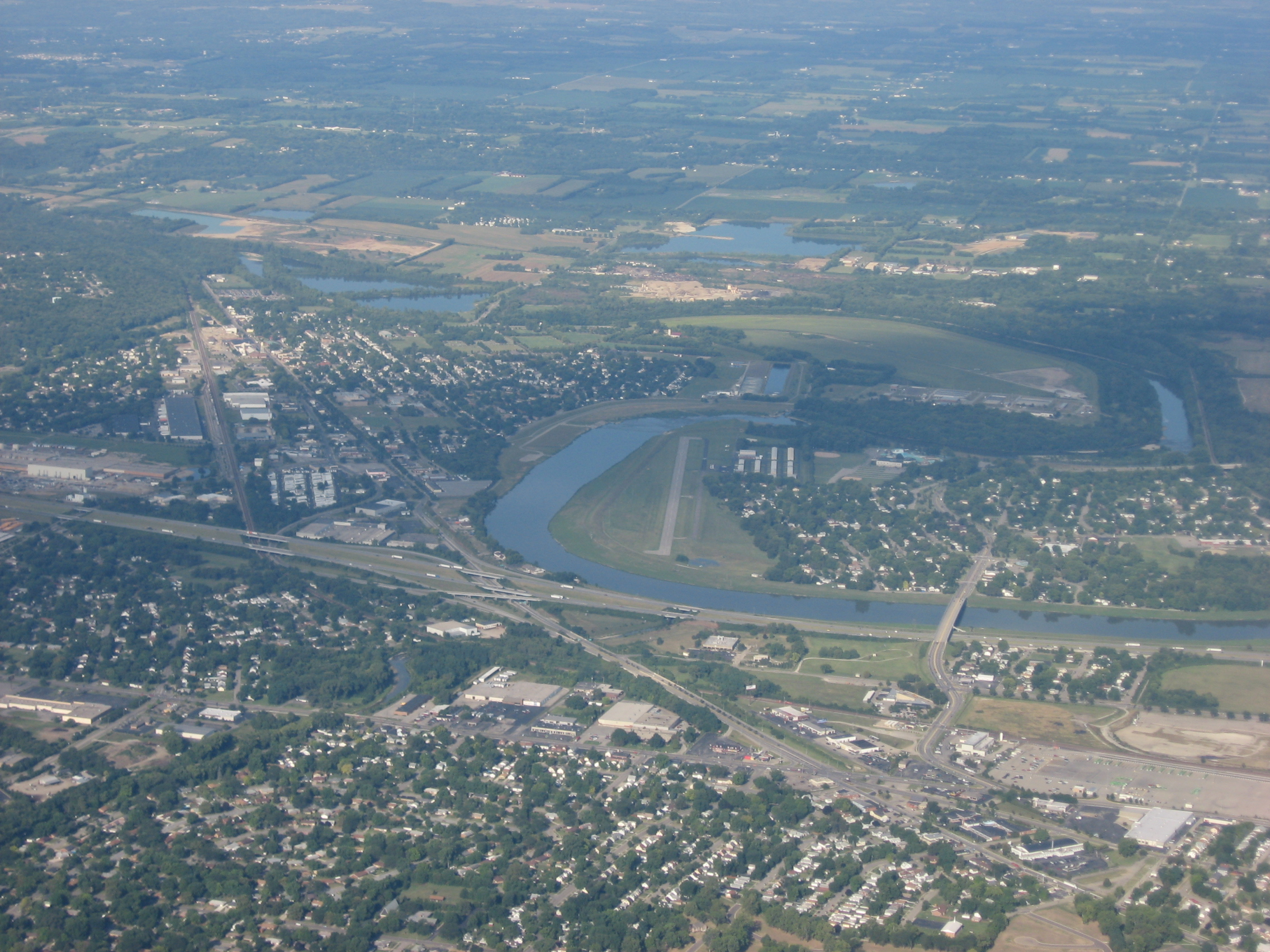 Aerial view of Moraine Airpark in the city of Moraine, a Dayton suburb in southern Montgomery County, Ohio, United States. The stream flowing past the airport is the Great Miami River, with Interstate 75 just across the river from the airport to the east. Picture taken from a Diamond Eclipse light airplane at an altitude of 4,430 feet MSL and a bearing of approximately 260º.